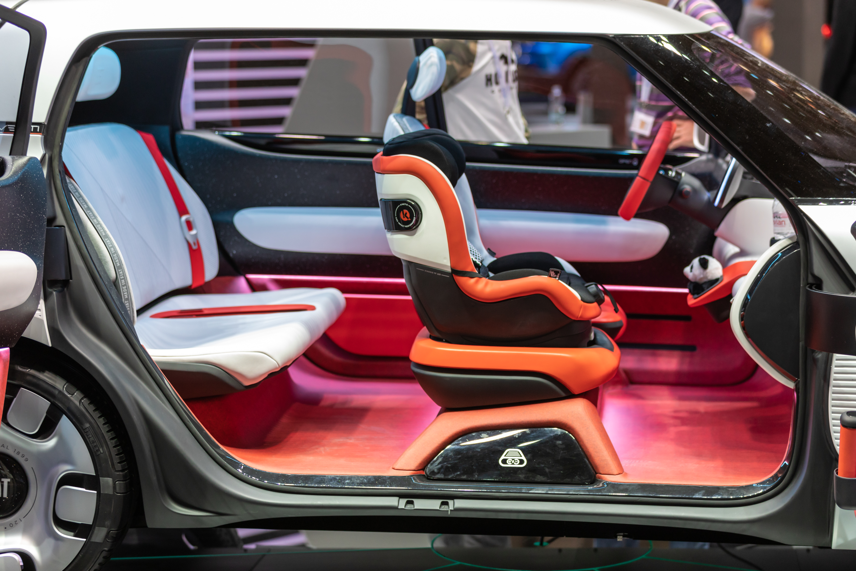 Fiat Centoventi Concept at Geneva International Motor Show 2019, Le Grand-Saconnex